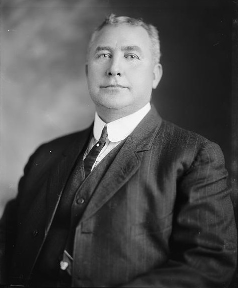 Henry Bruckner, Congressman from New York